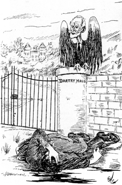 Contemporary satirical cartoon of William Martin Murphy titled The Demon of Death